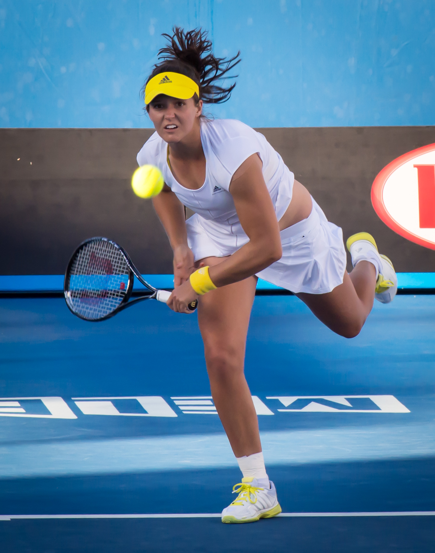 Laura Robson during her 3rd round loss to Sloane Stephens at the 2013 Australian Open. This image was taken at time index 1:47:55 in the match video